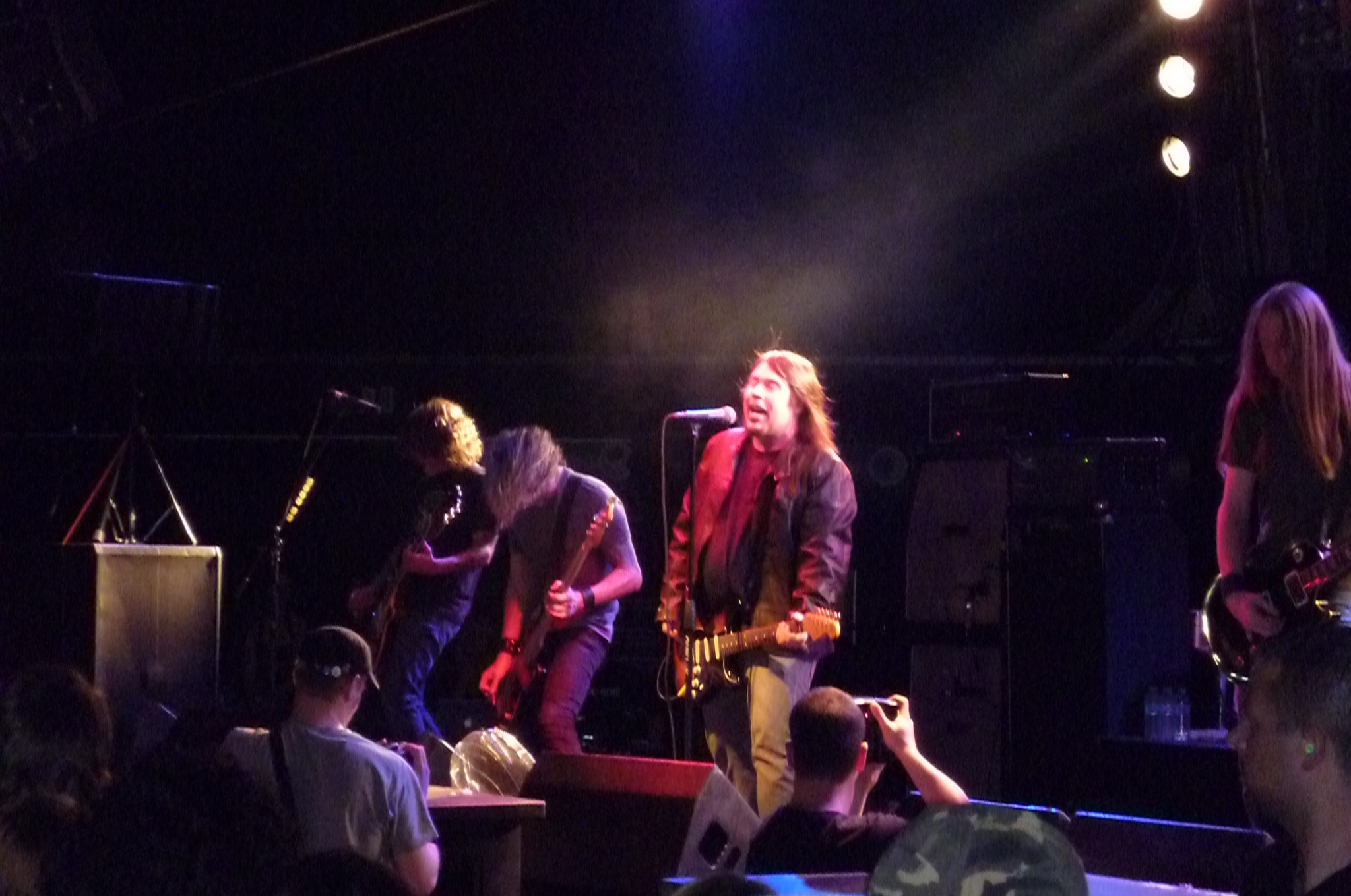 Monster Magnet live at Garage (Saarbrücken)